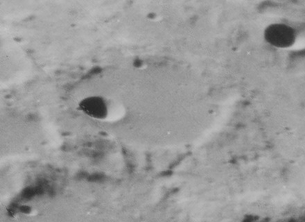 Oblique view of Moigno crater, facing northwest, on the moon.